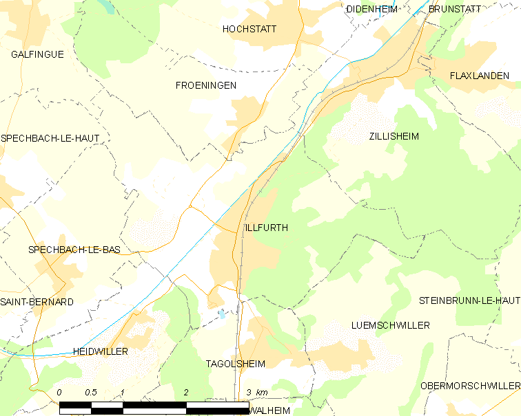 Map of French municipality